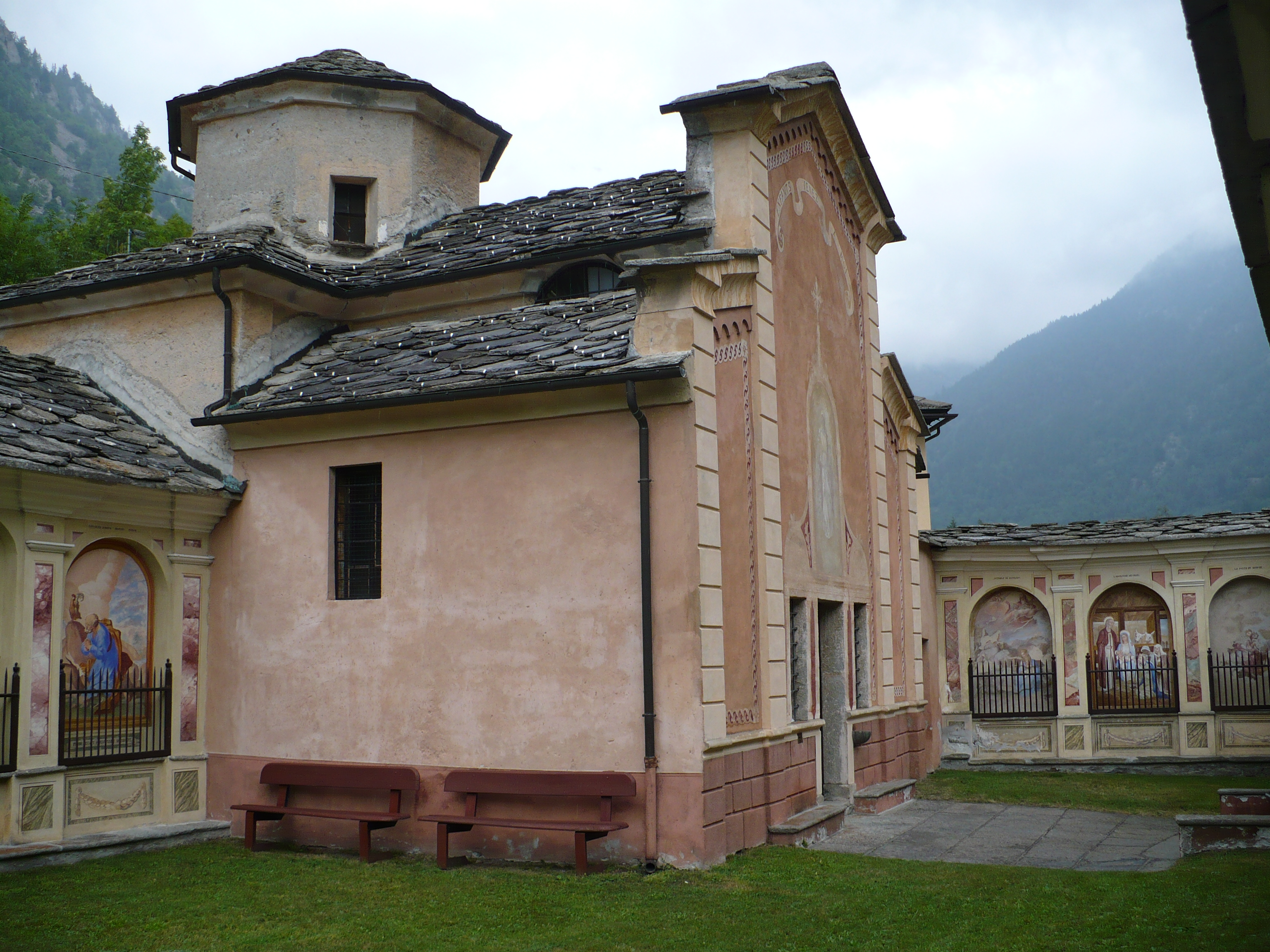 shrine of Vourry - Gaby - Aosta Valley - Italy